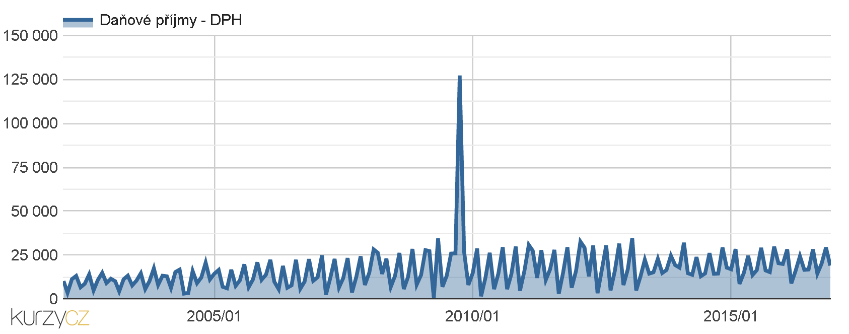 Tax revenue - VAT, in CZK, Representative Indicators of State Budget - Czech republic statistics